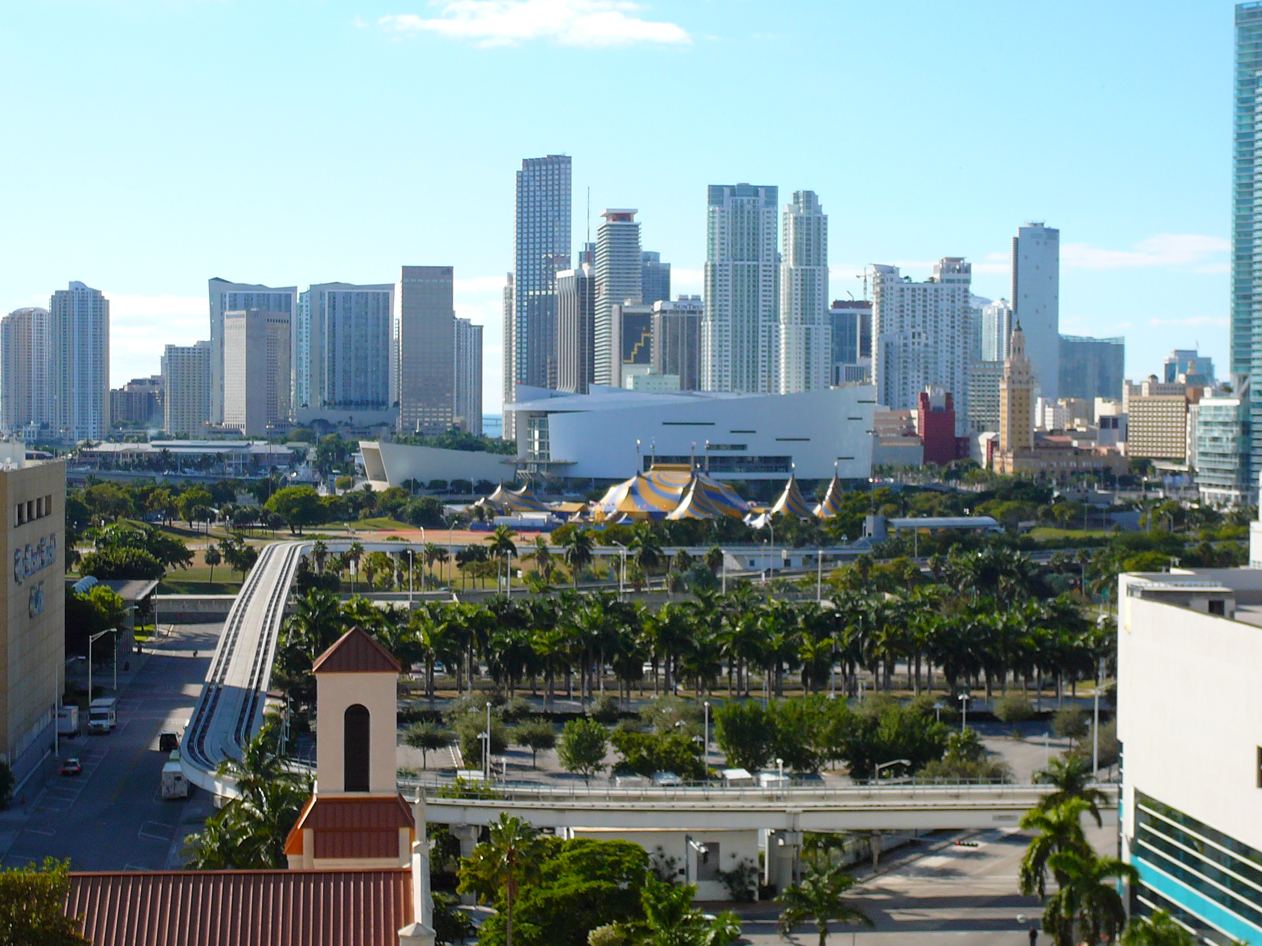 Digital photo taken by Marc Averette. Central Downtown Miami as seen from the north. November, 2008